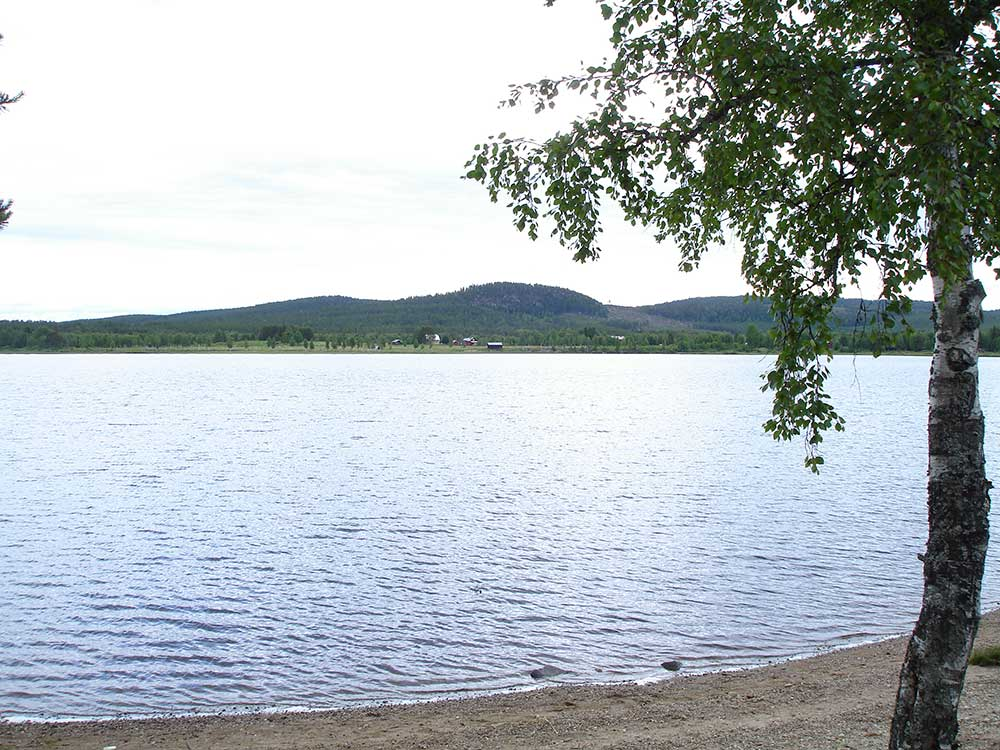 Lake Borgsjön i Swedish Lapland, with Borgsjö village on the other side.